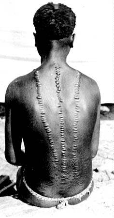 "Scarification pattern among the Great Andamanese in the late 19th century. Nothing is known of the origins or antiquity of this custom among the Andamanese." Citation from Clothes, Clay and Beautycare (of Great Andamanese people), by George Weber.